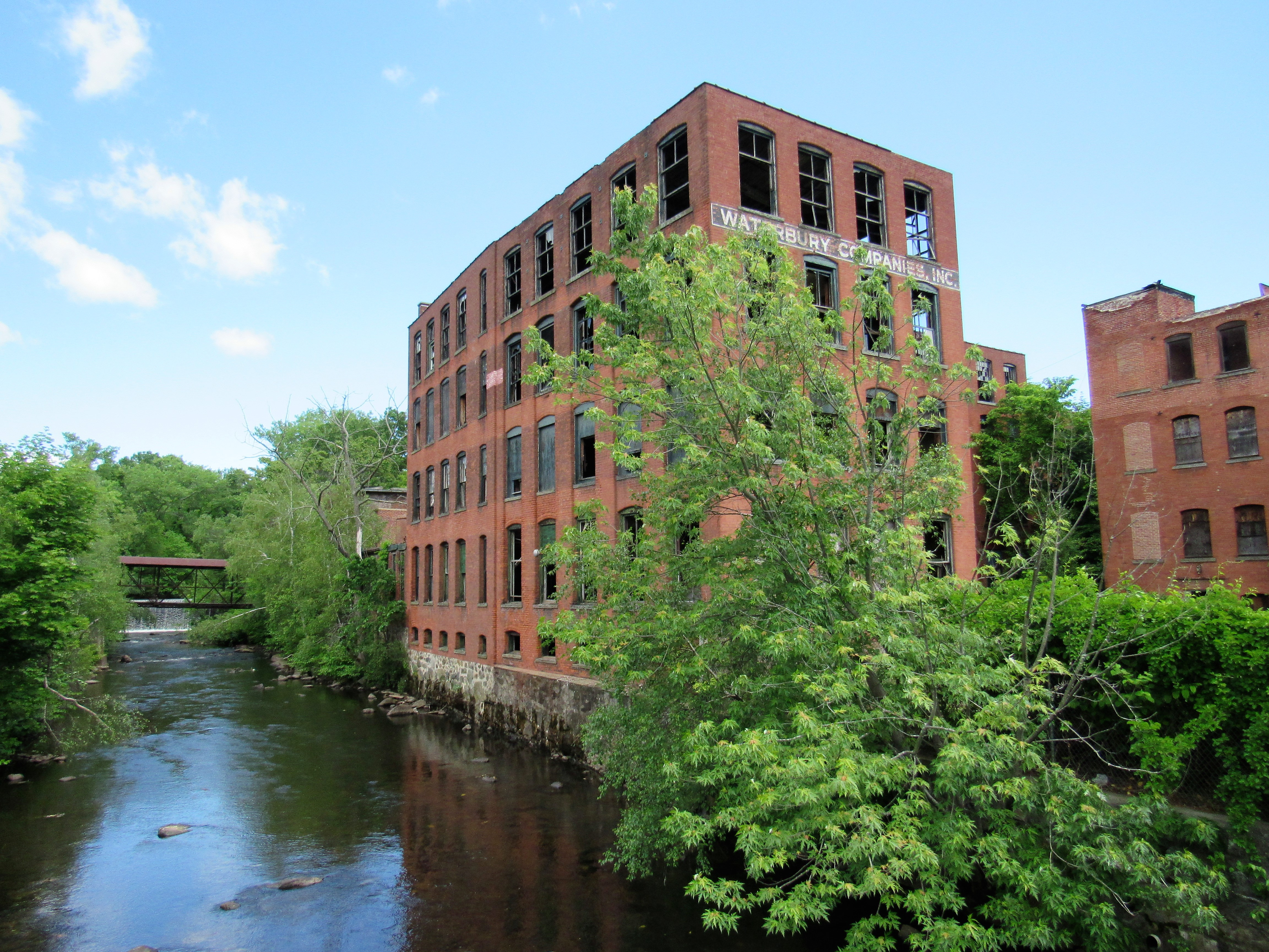 The former Waterbury Companies facility on the Mad River in Waterbury, Connecticut.